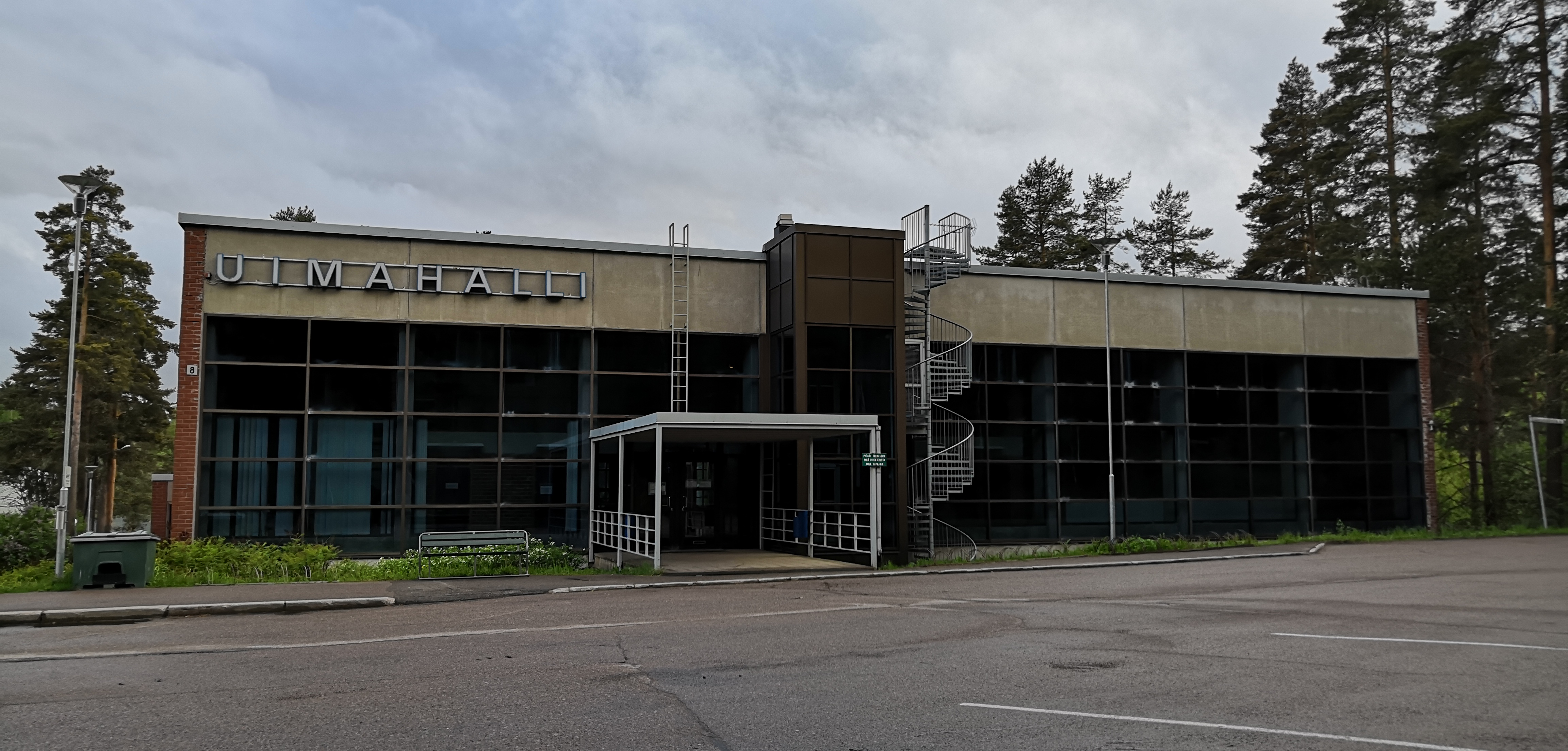 Kuusankosken uimahalli